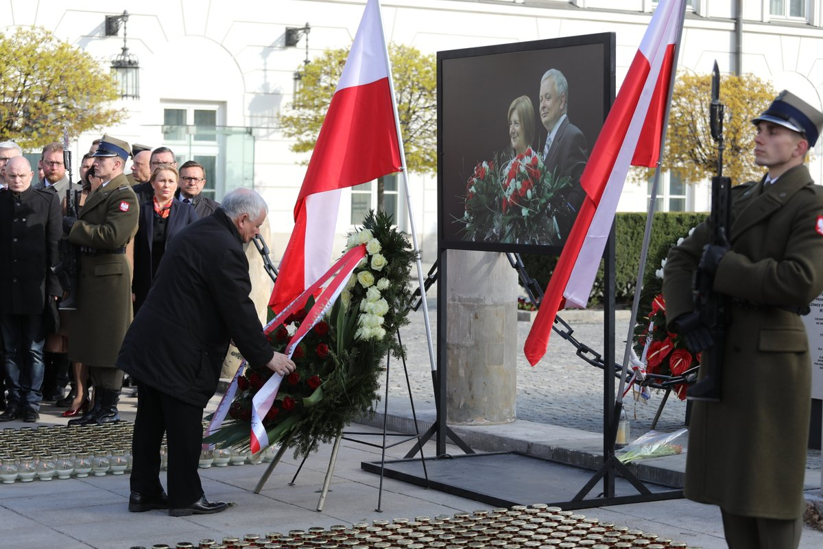 Mass, Remembrance, flowers at monuments and graves. Celebration of the 9th anniversary of the Smolensk plane crash. Celebrations in Warsaw.